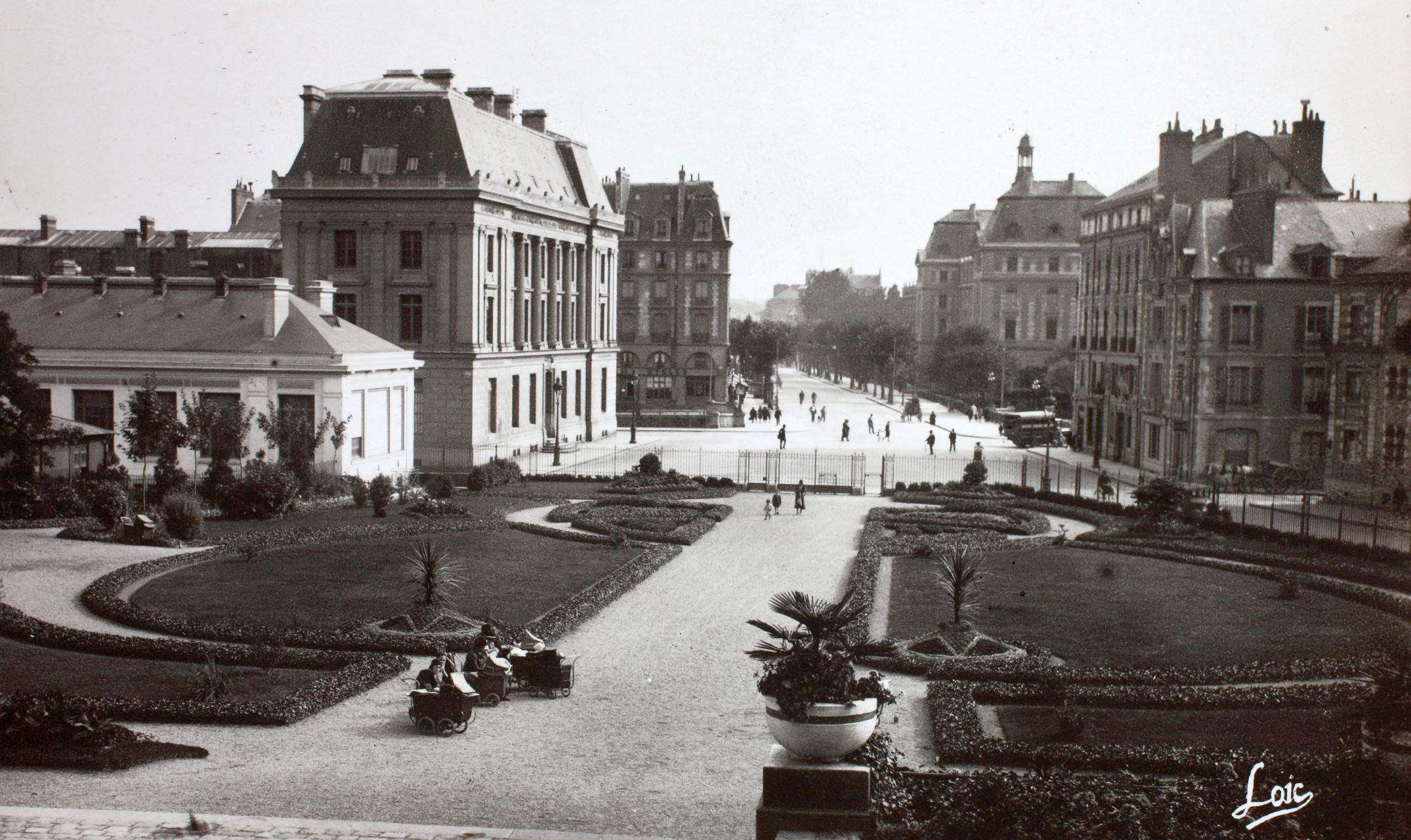 Rennes - Avenue Janvier